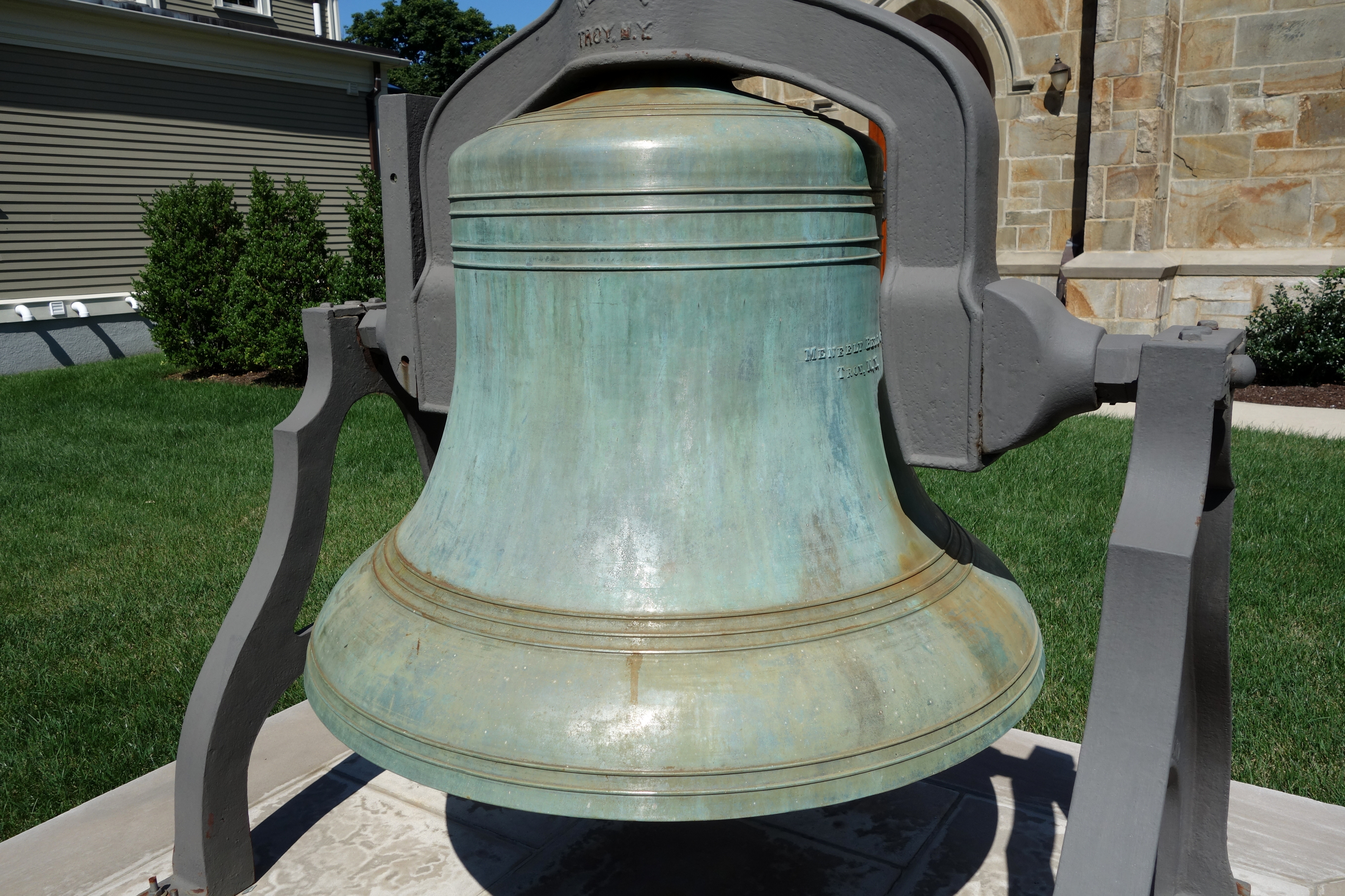 Memorial in Watertown, Massachusetts, USA. This memorial is in the public domain because it was published in the United States between 1923 and 1963 and although there may or may not have been a copyright notice, the copyright was not renewed.